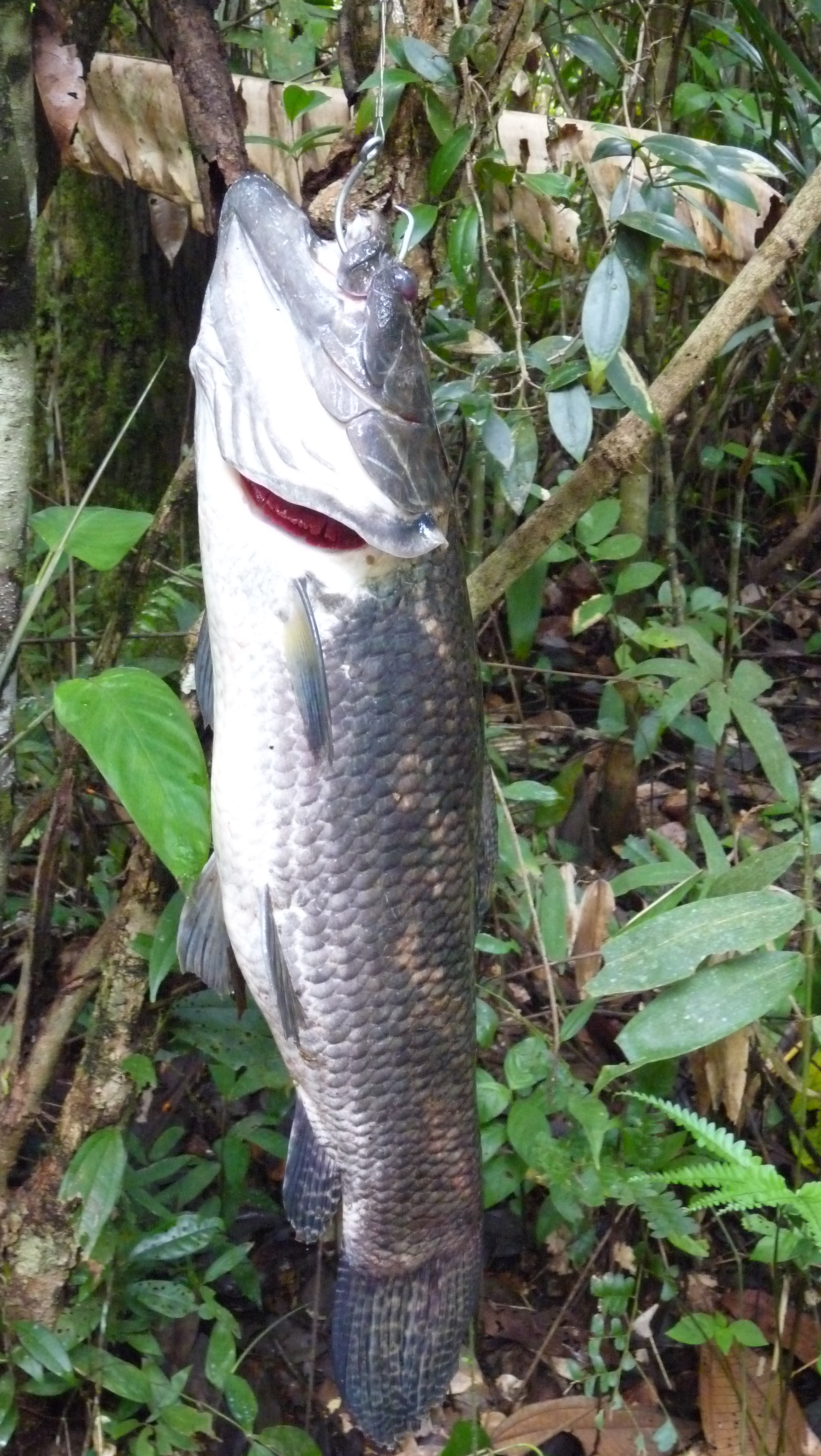 Aymara 78cm ~8kg